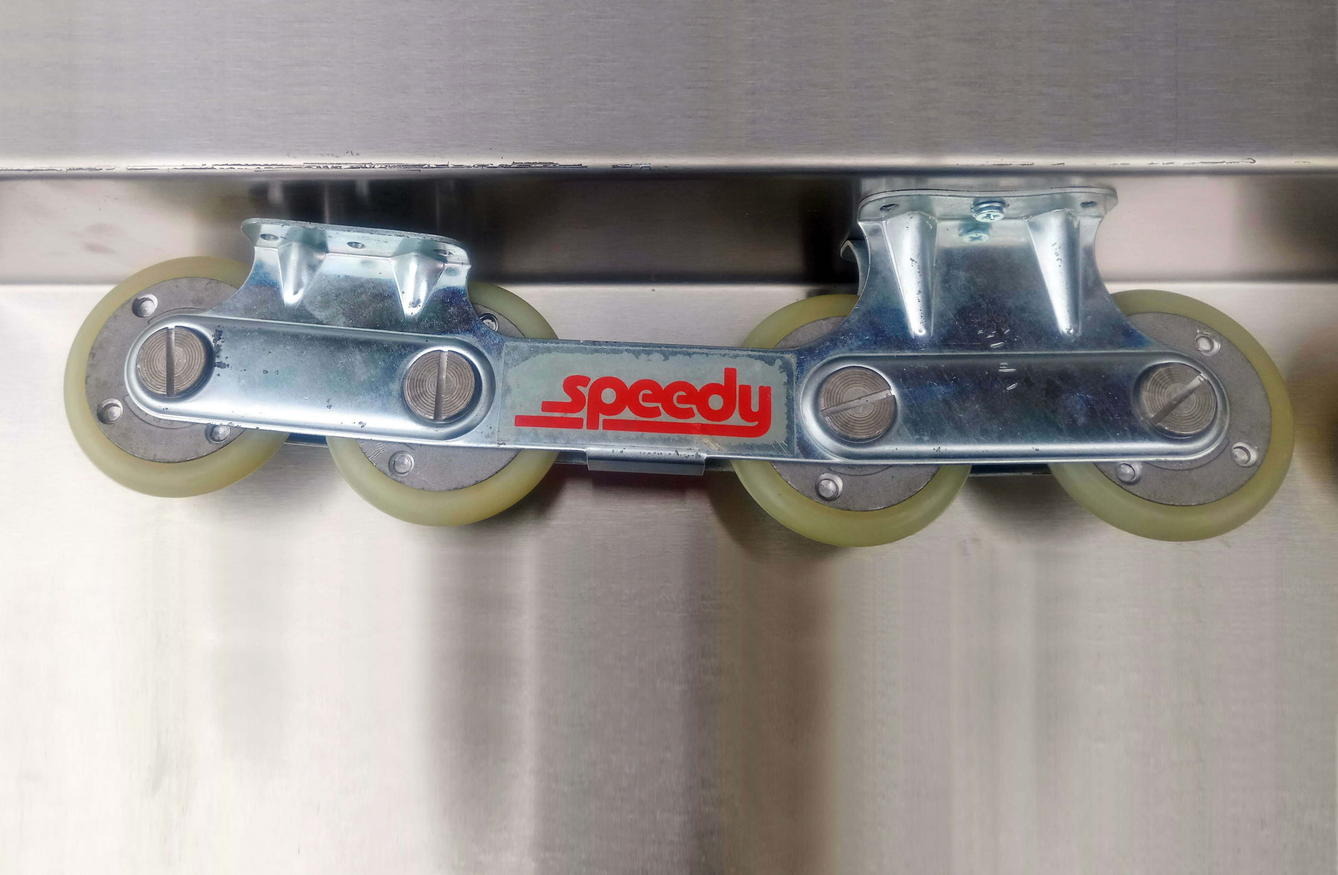 Inline-Skates "Speedy" made in the 1970ies by SKF